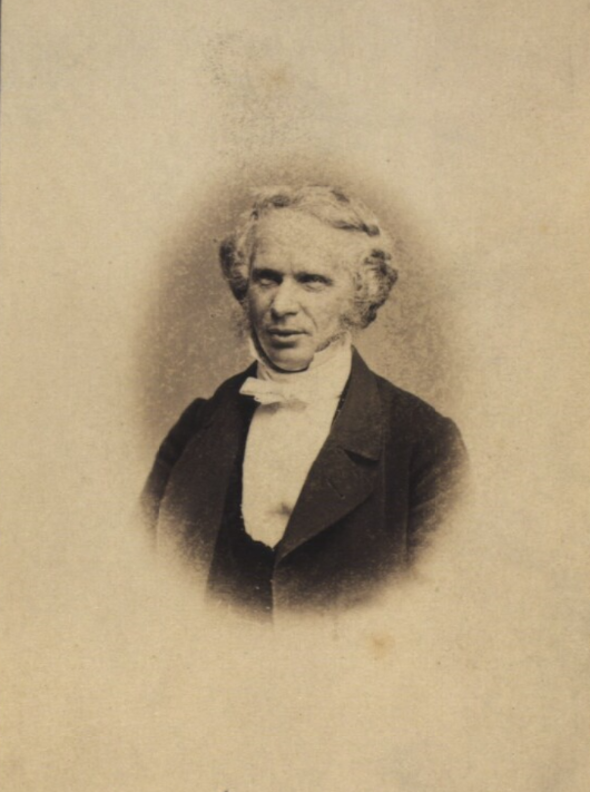 Rudolph Christopher Puggaard (07.01.1818-12.09.1885), Danish merchant )cropped image=